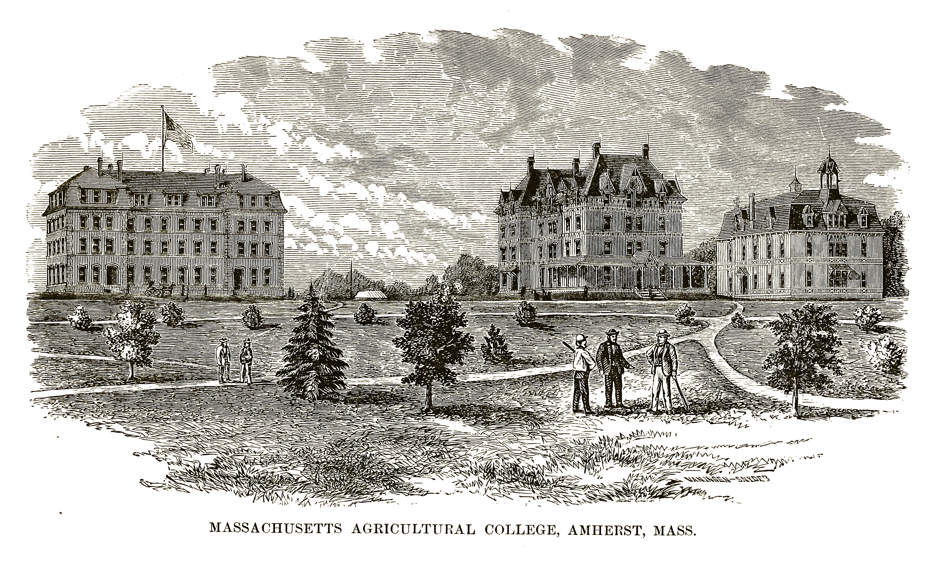 Massachusetts Agricultural College, Amherst, Mass. 1879